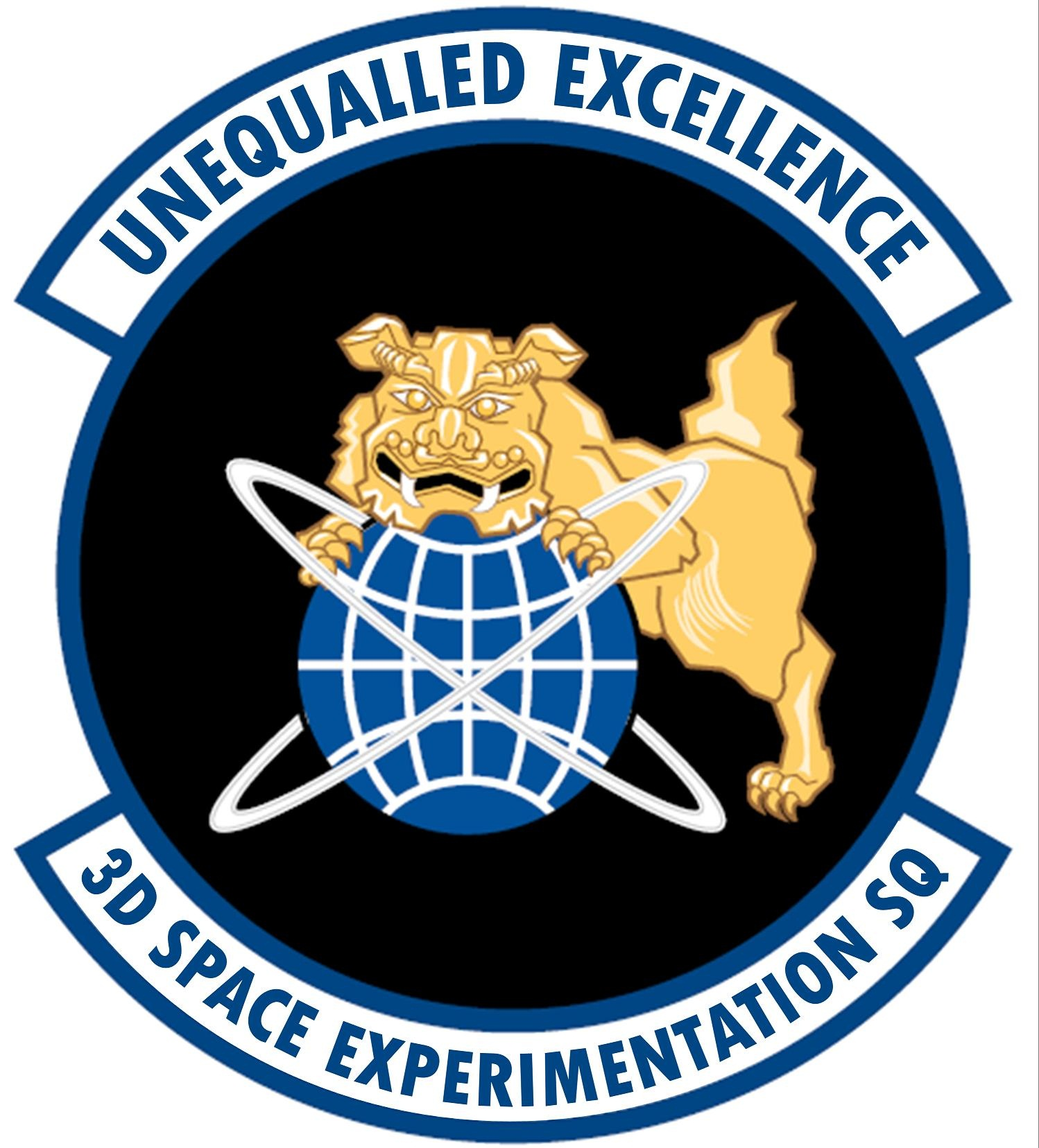 3d Space Experimentation Squadron Patch